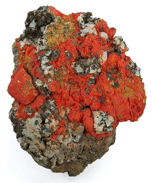 Minium Locality: Old Yuma Mine (Yuma Mine), Saguaro National Monument, Amole District, Tucson Mts, Pima County, Arizona, USA (Locality at ) Size: 4.8 x 3.8 x 3.4 cm. Intense red microcrystals or druse coating matrix, of this lead oxide species. The matrix seems to be cerussite altering to galena or anglesite, and is surprisingly hefty. Ex. Bill Pinch Collection.